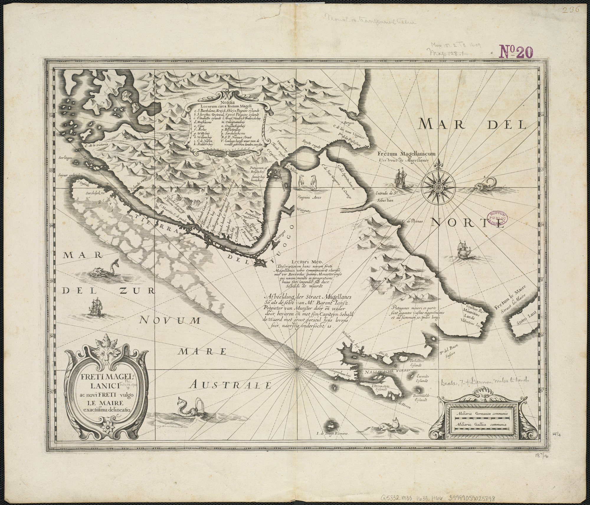 Zoom into this map at . Author: Hondius, Hendrik Publisher: Hondius, Hendrik Date: 1633 Location: Magellan, Strait of (Chile and Argentina), Tierra del Fuego (Argentina and Chile) Dimension 37x47cm Scale: ca. 1:2,050,000 Call Number: G5332.M33 1633 .H66